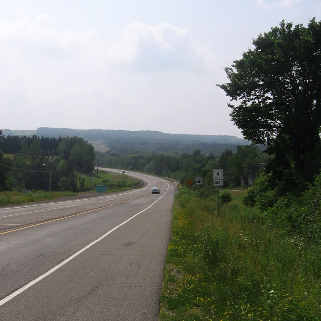 Photograph of trunk highway in Nova Scotia.